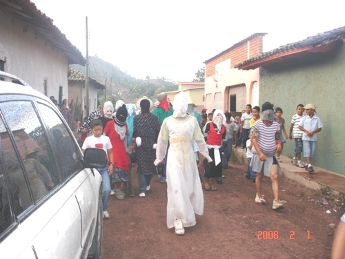 Eastern celebration